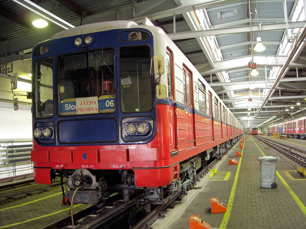 STP Kabaty. Public transport Days in Warsaw. 20.09.2008 r.